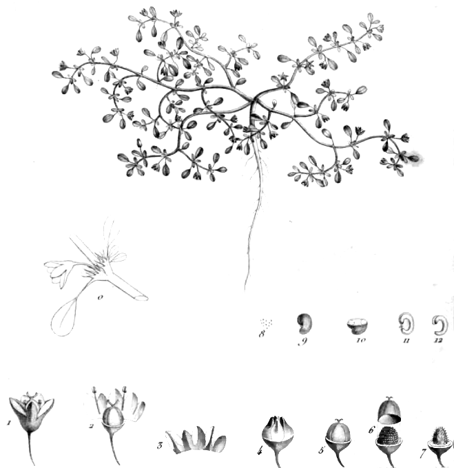 Cypselea humifusa